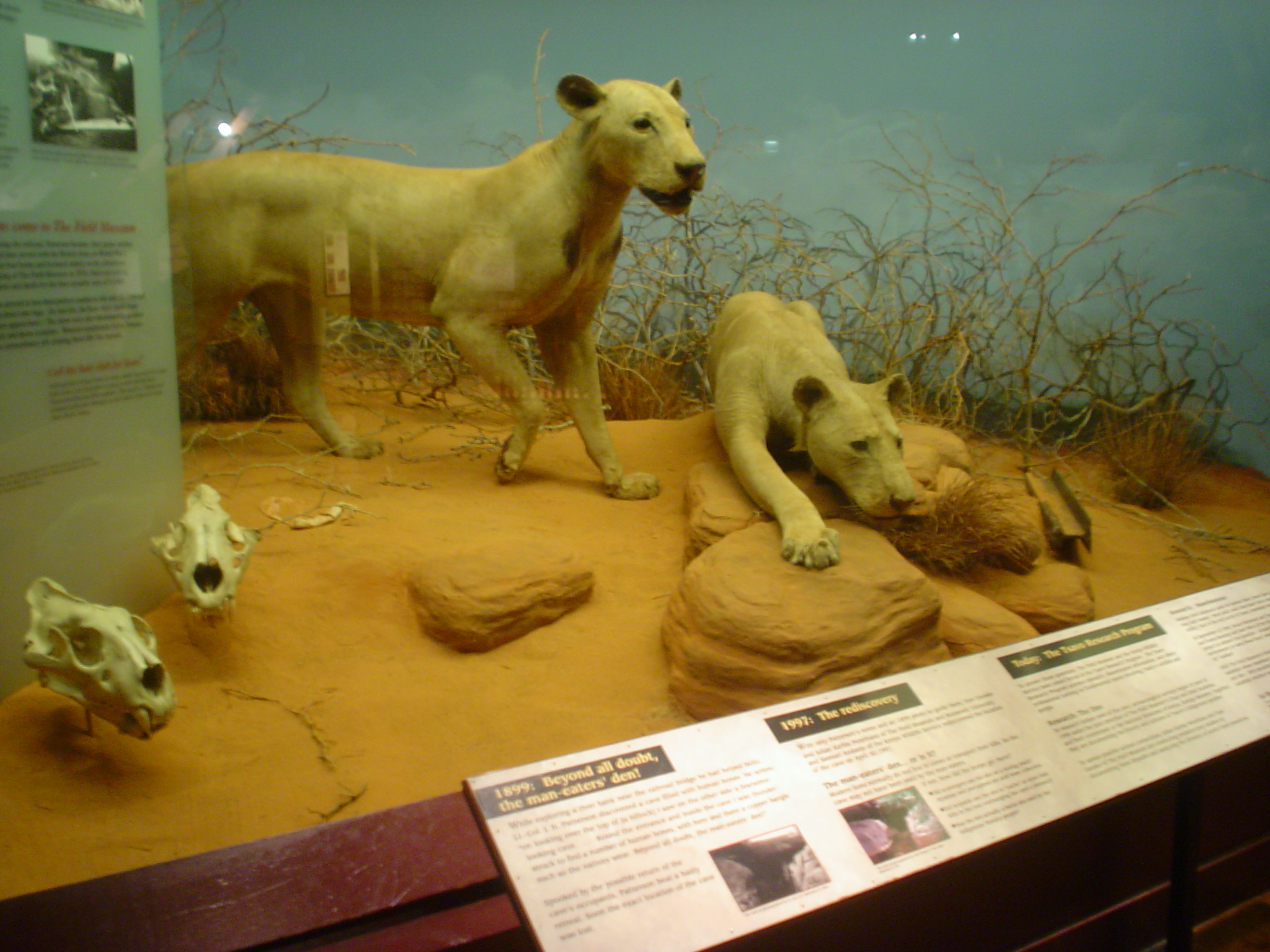 An image of the Tsavo maneaters at the Field Museum of Natural History in Chicago, Illinois.